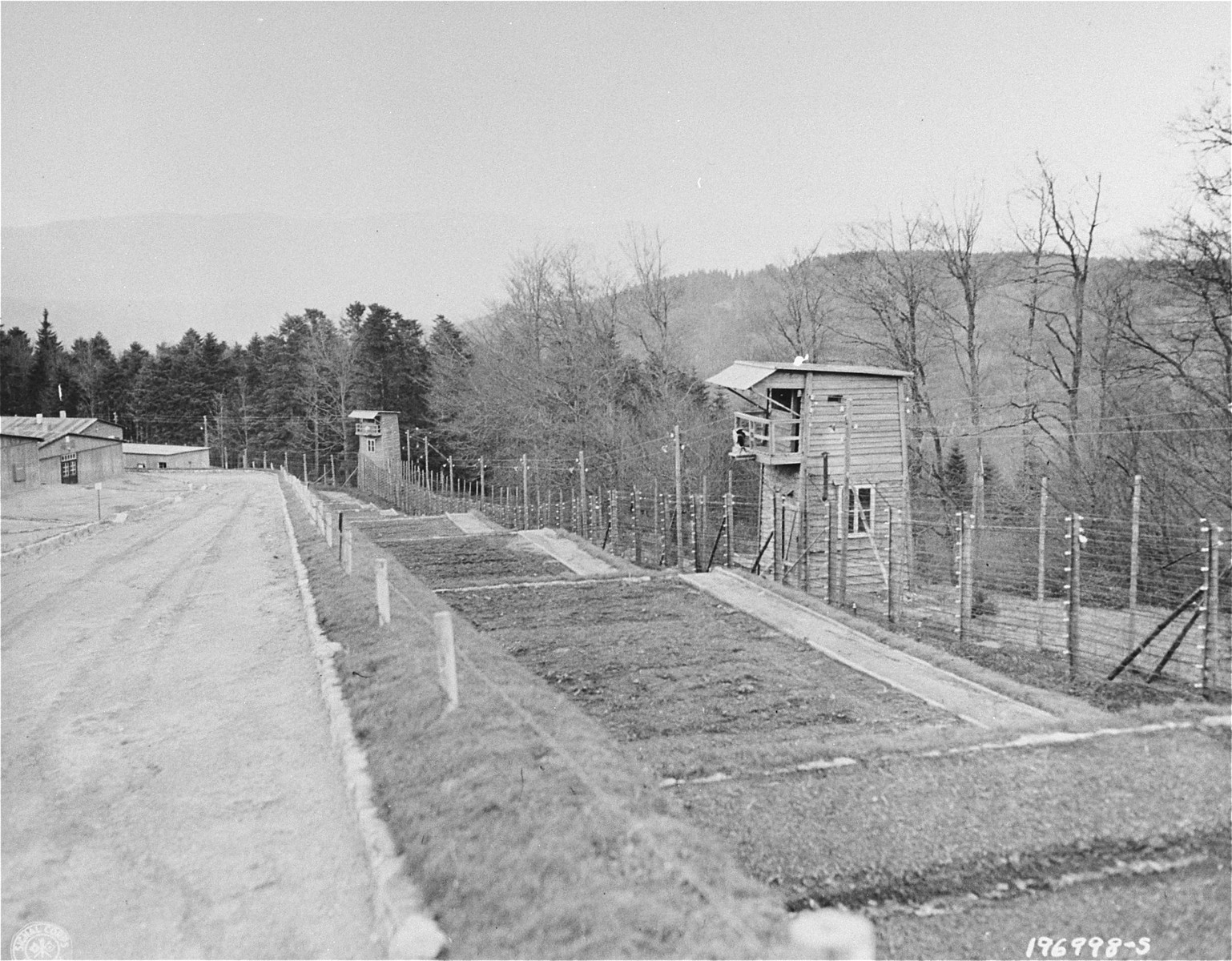 See title